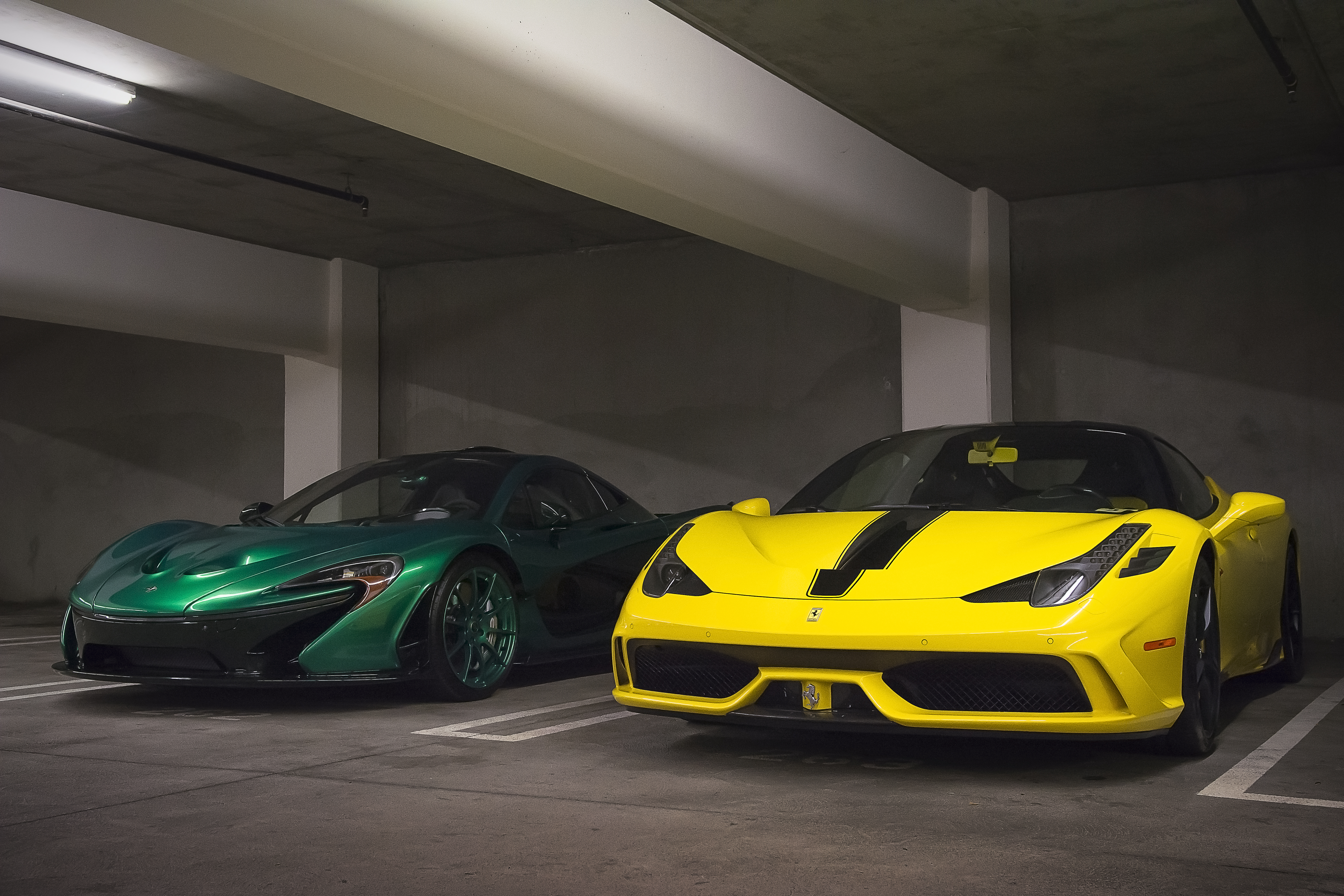 Green McLaren P1 and Yellow Ferrari 458 Speciale spotted at an underground in Pebble Beach California. These were just a couple of the cars that Michael Fuxx brought out to Monterey Car Week. (cc) Creative Commons Personal and Commercial with Attribution. If you use this photo make sure you source with a link back to my site at